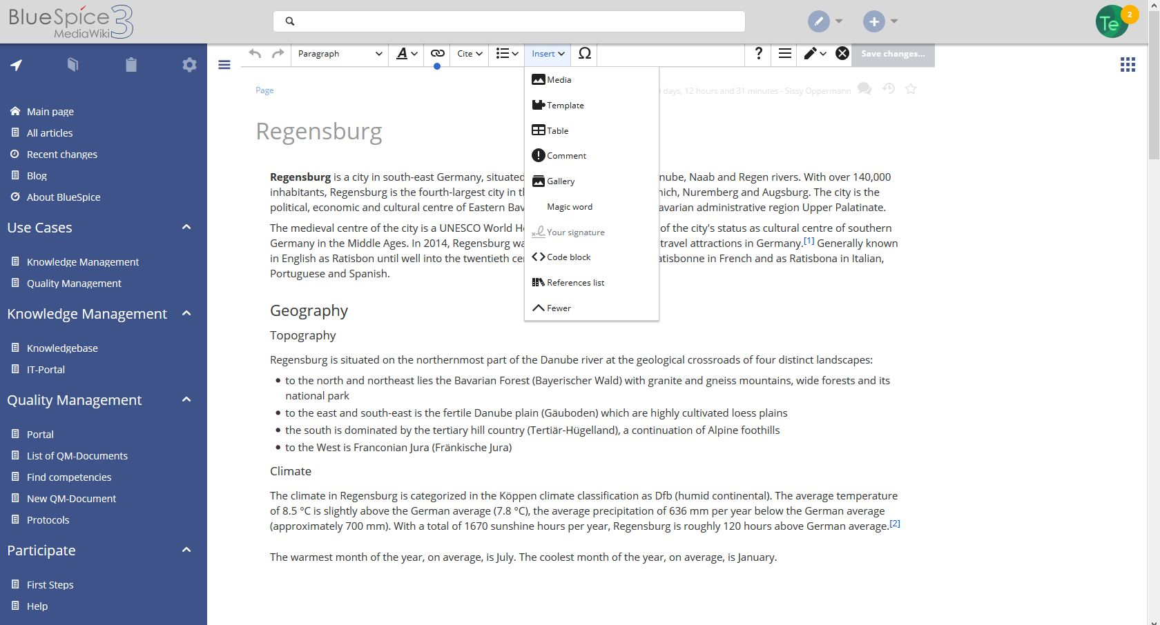 BlueSpice uses the same visual editor as Wikipedia